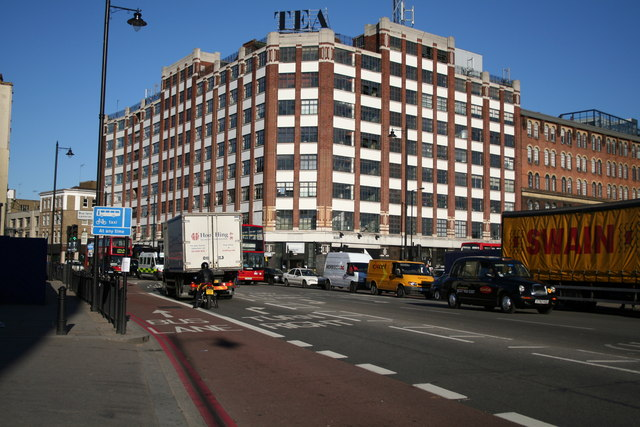 The site for a new bridge At first sight this looks like just an ordinary shot of the TEA building on Shoreditch High Street. However the view here will be radically changed in just a few weeks, for a new railway bridge will cross right over the field of view. It will be part of the £900M East London Railway extension, which will connect the East London Line, via a new station at Shoreditch, (it will be on the right of this picture), to the presently disused viaduct alignment which until 1986 served Broad Street station, so that 'Overground' trains will be able to run through between New Cross or New Cross Gate and Dalston Junction, (later to Highbury & Islington). This is the most important local rail project in London snce the completion of the Jubilee Line Extension, and should be completed by the middle of 2010.